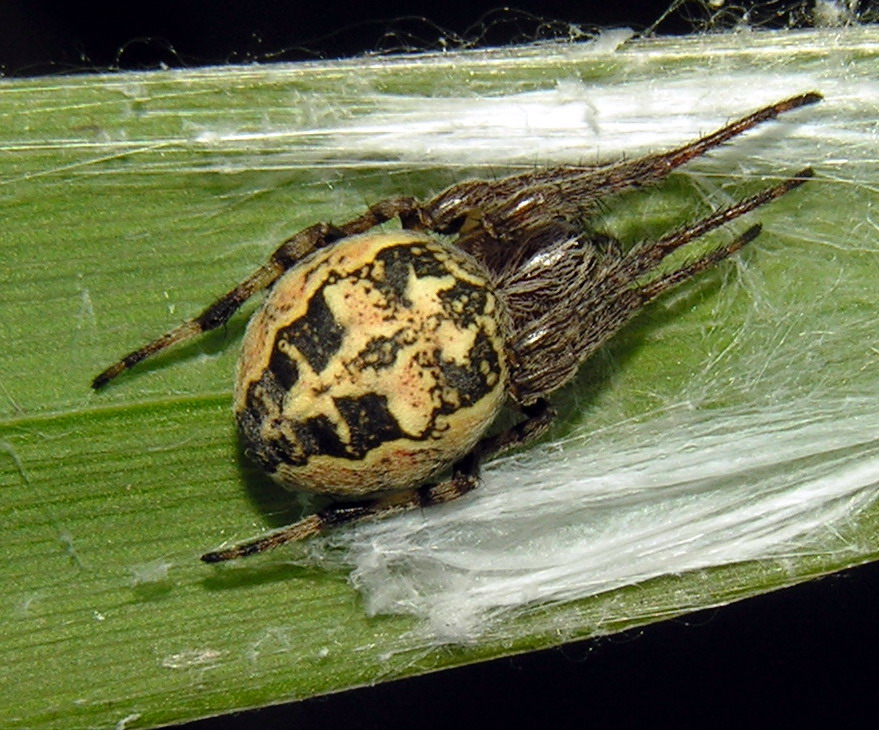 This image was copied from lt. The original description was: Nendrinis žnypliavoris (Larinioides cornutus) Šeima. Kryžiuočiai (Araneidae) Foto: Algirdas, 2006 m. liepos 5 d.